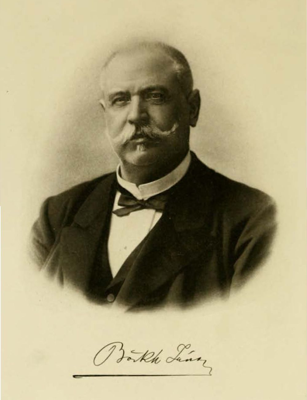 Portrait and signature of the geologist János Böckh